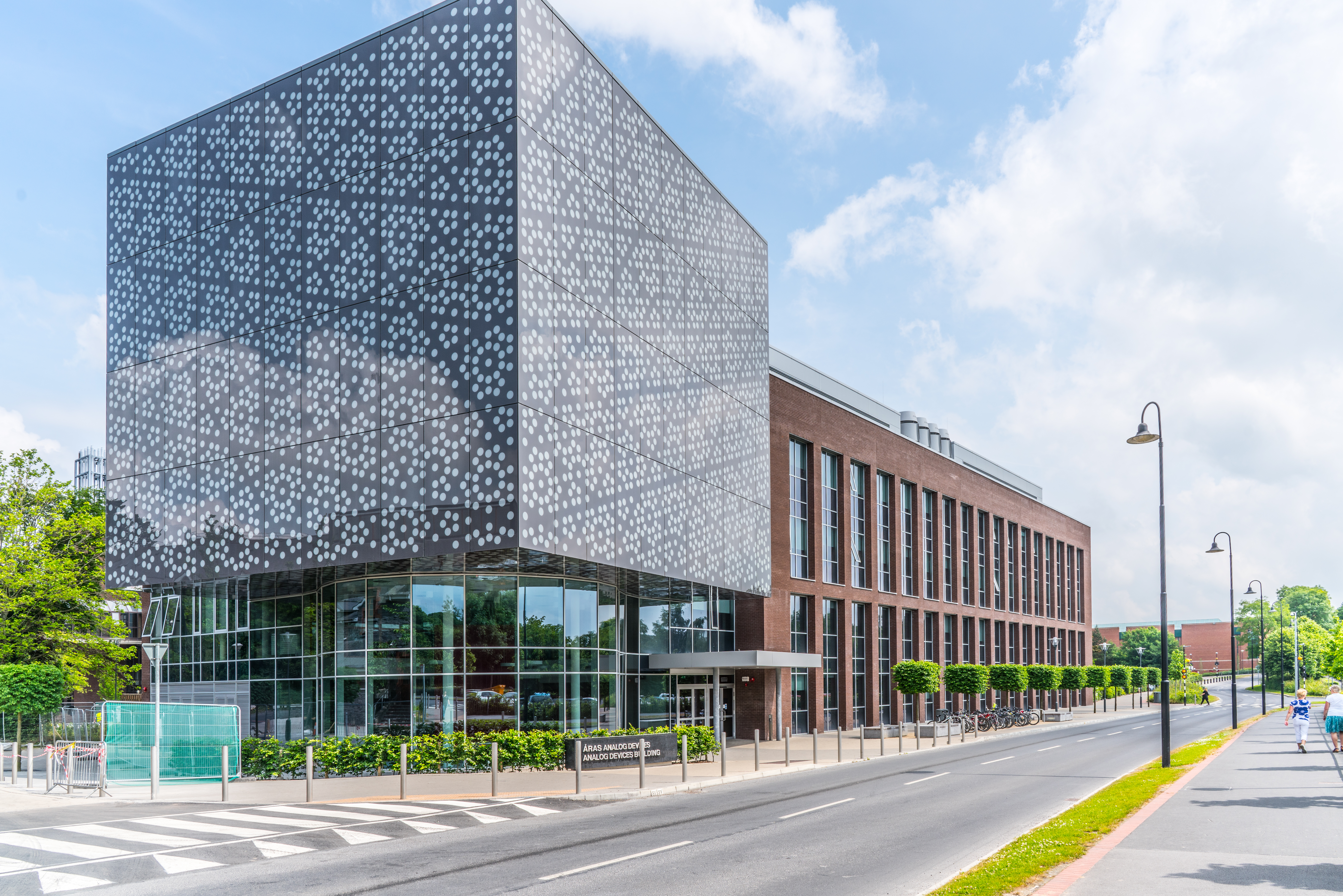 The Analog Devices Building at the University of Limerick (2016)